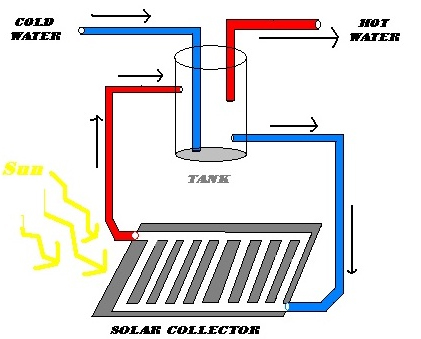 Close-coupled system